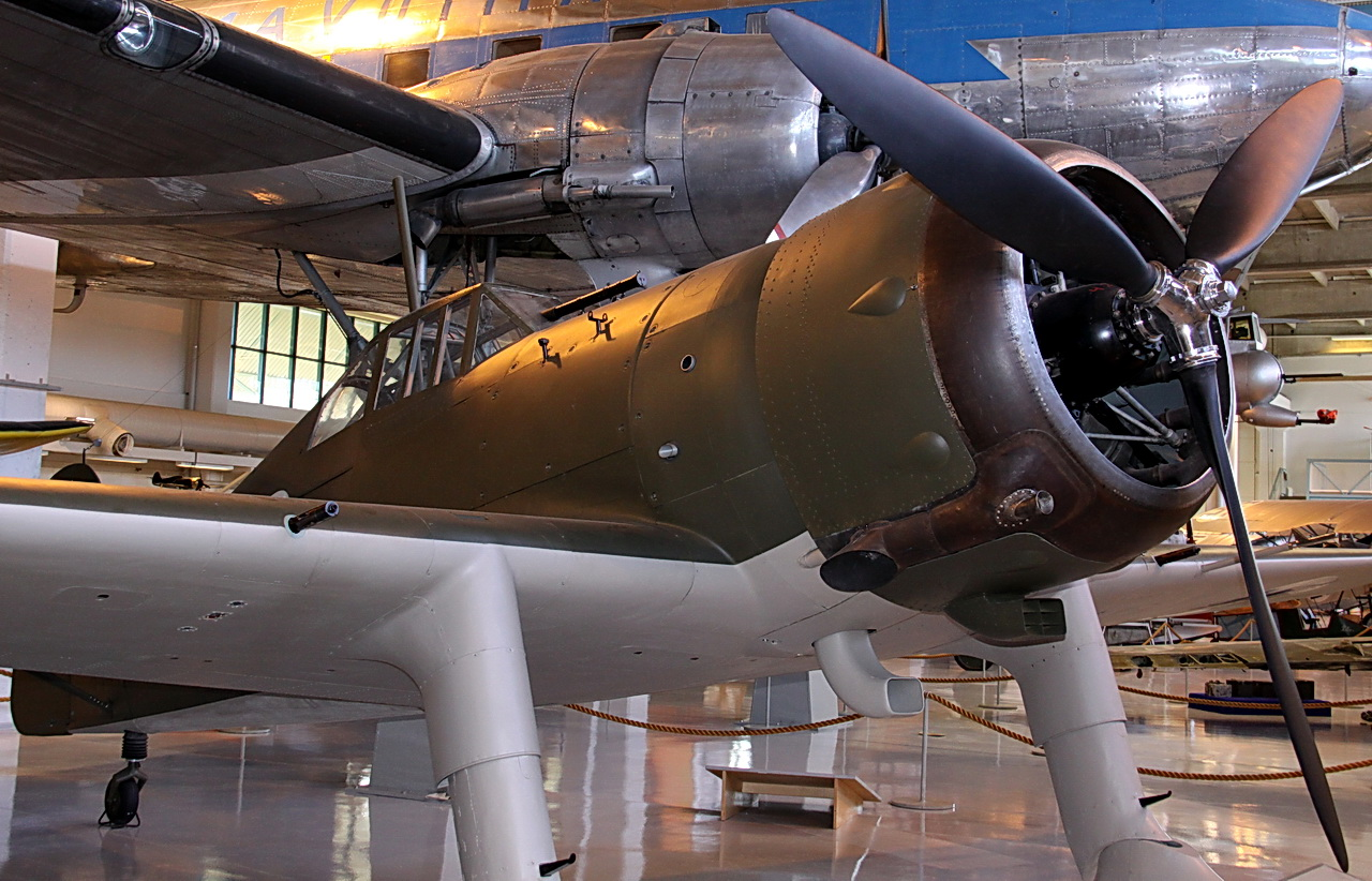 Fokker D.XXI (FR-110) in Aviation Museum of Central Finland.